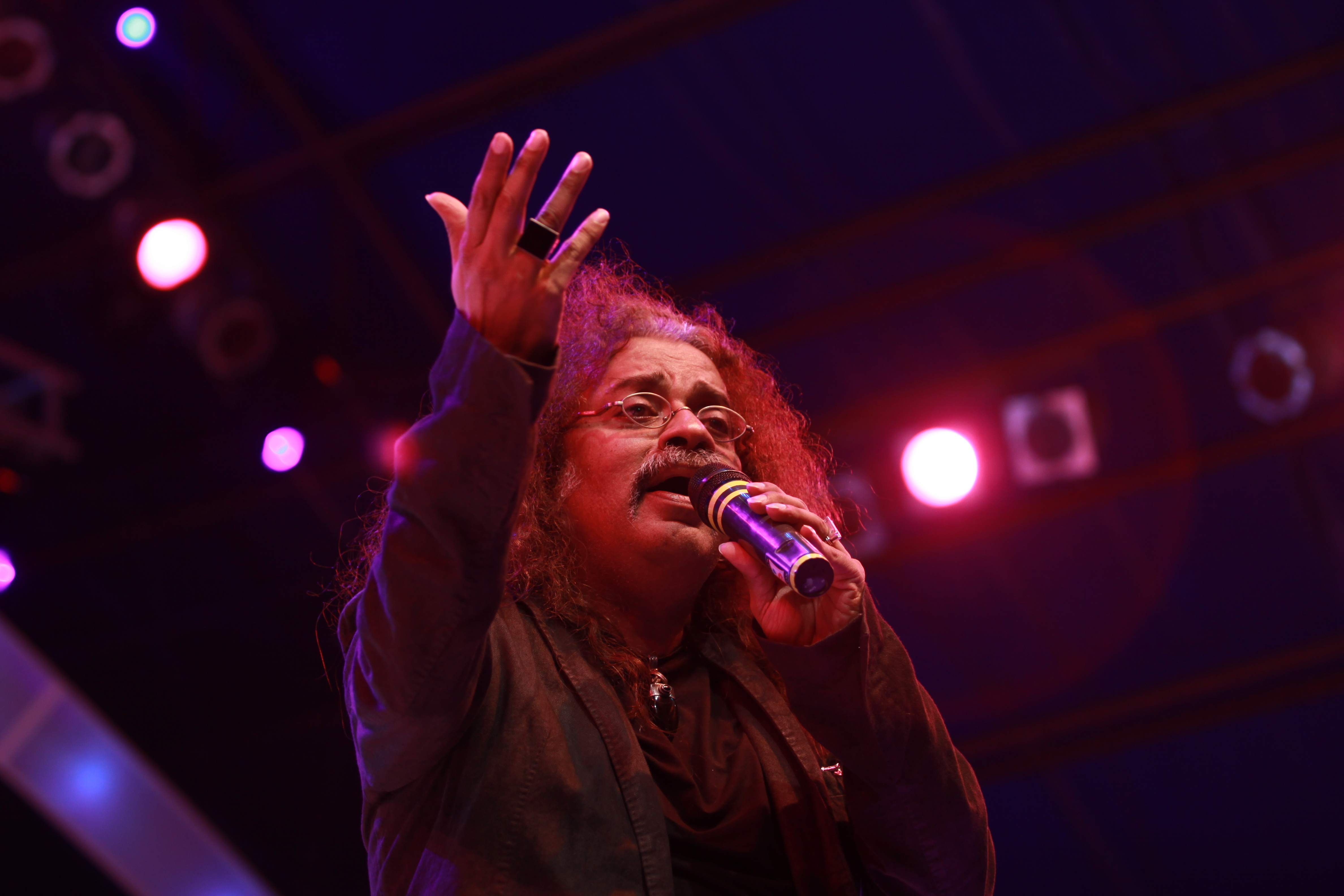 Hariharan is an Indian playback singer who has sung for Malayalam, Tamil, Hindi, Kannada, Marathi, Bhojpuri and Telugu films, an established ghazal singer, and one of the pioneers of Indian fusion music